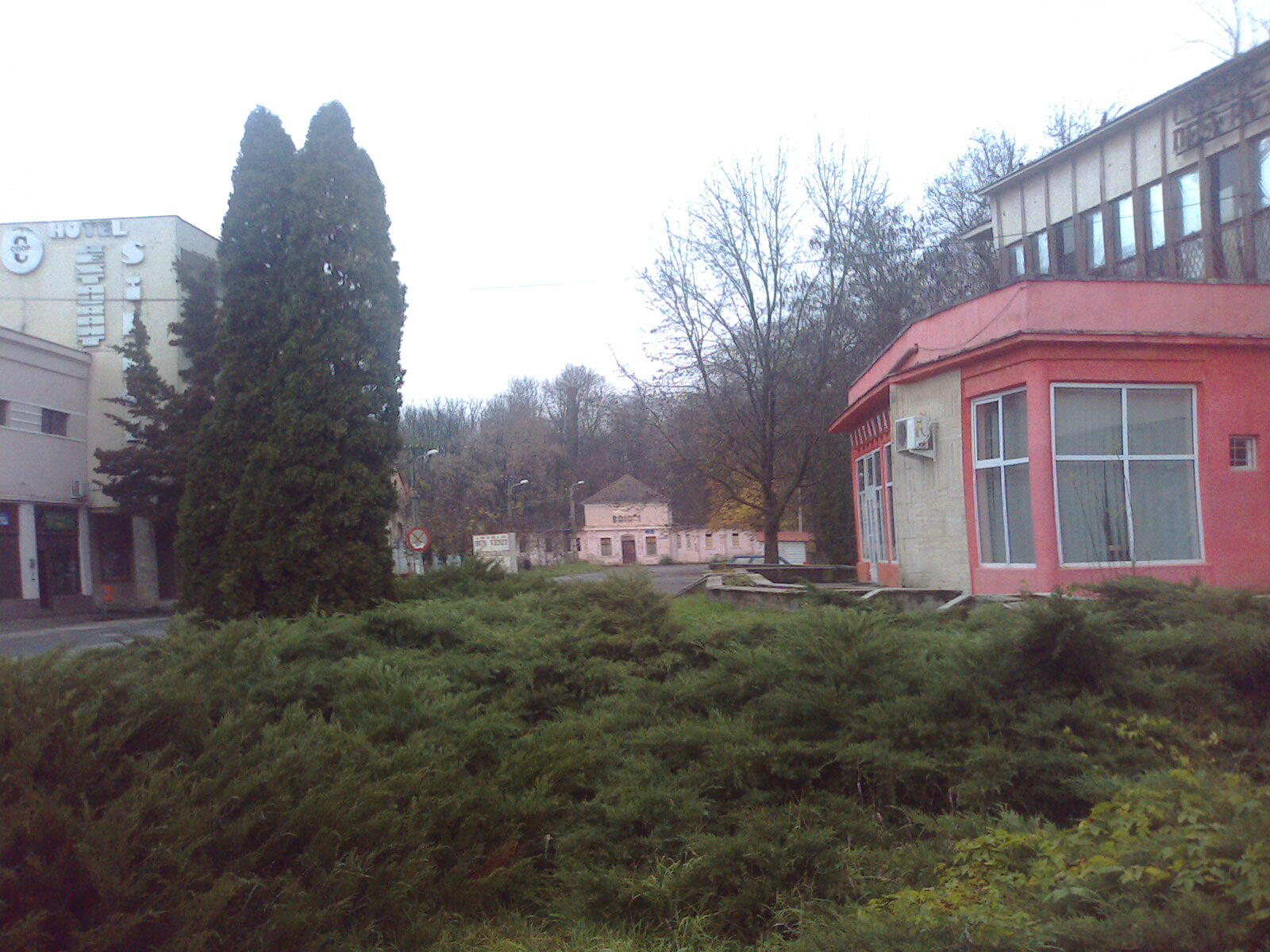 Buziaş resort (Romania) in the autumn of 2007